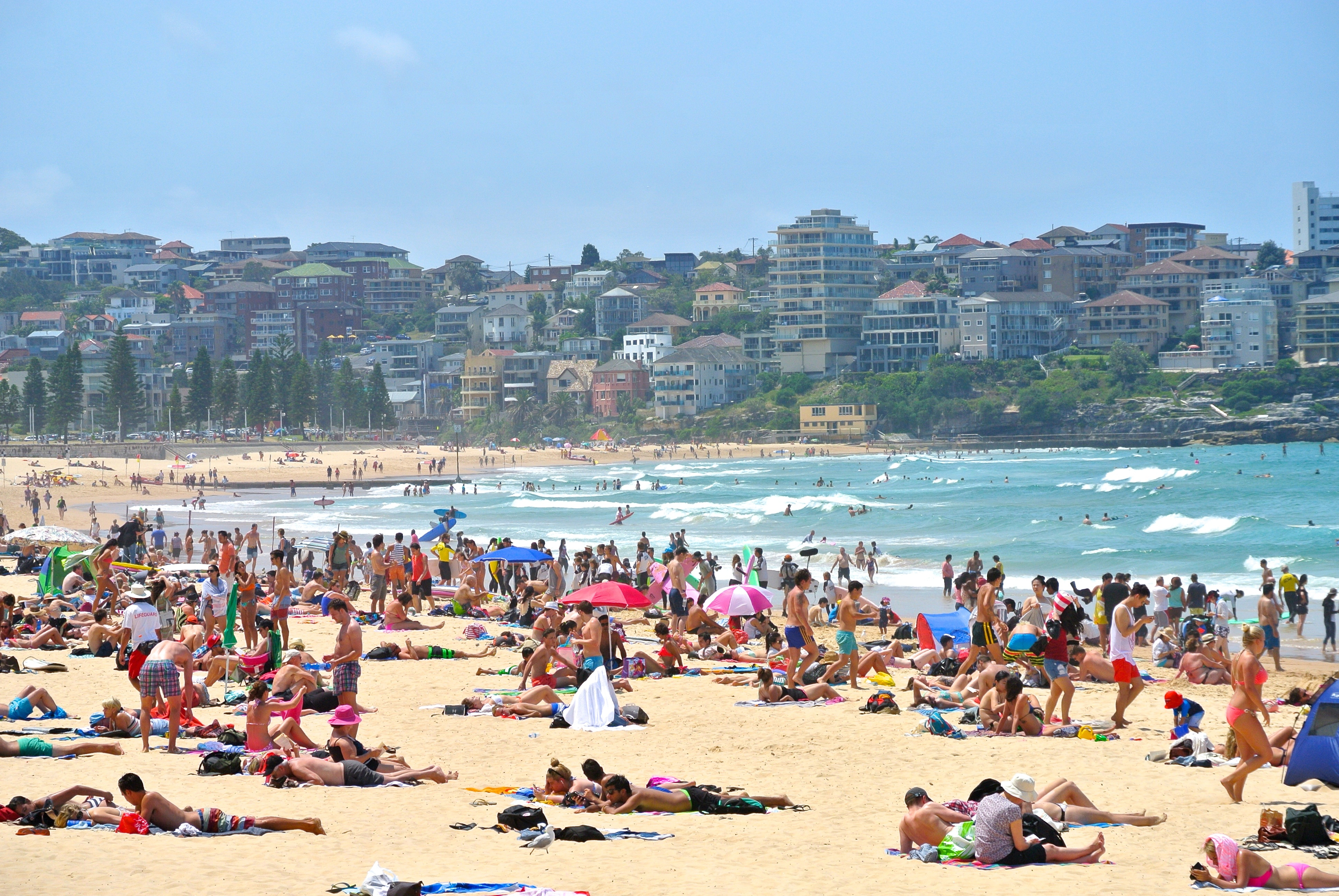 Manly Beach in January.